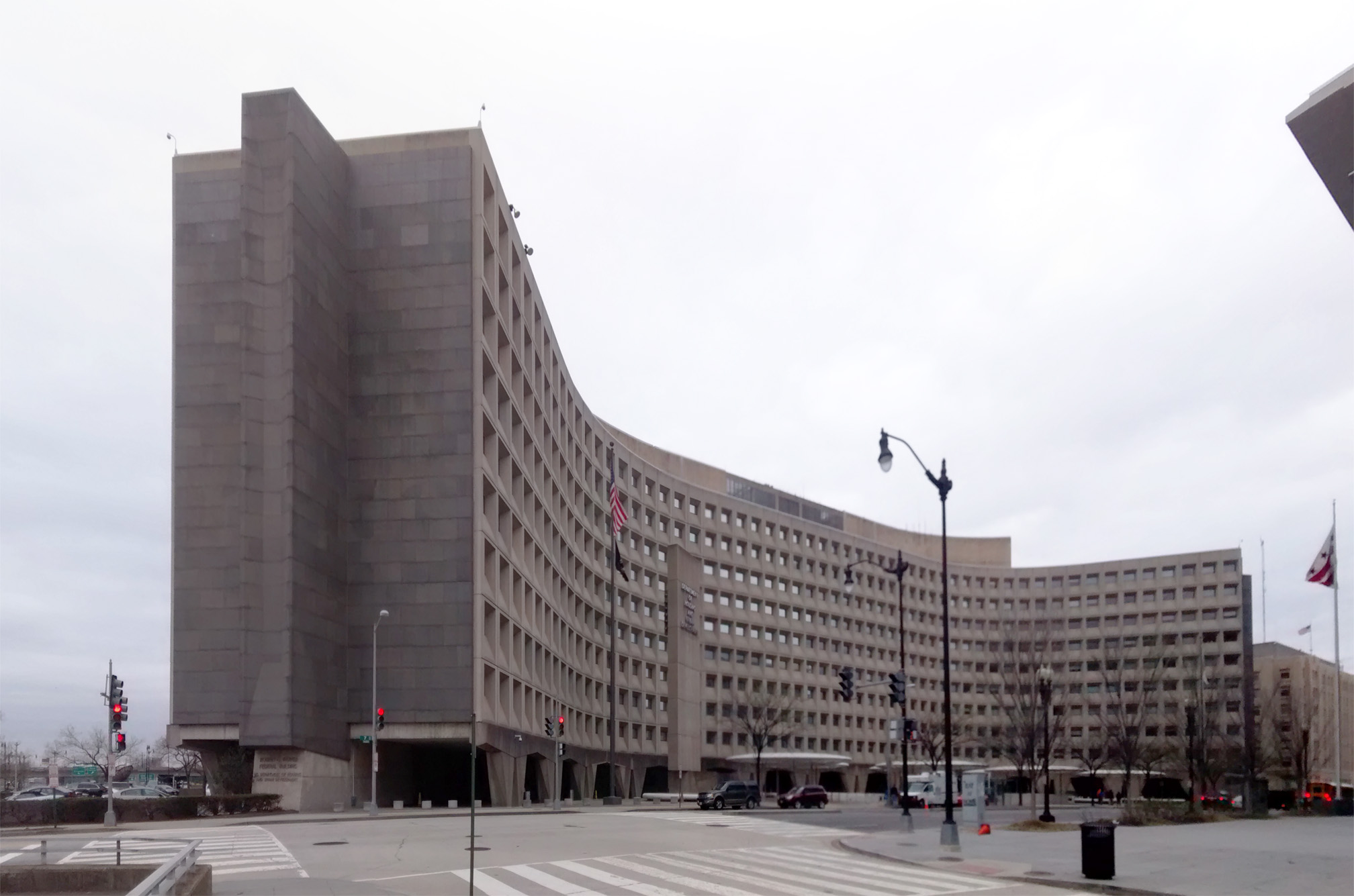 Marcel Breuer, Robert C. Weaver Federal Building, Department of Housing and Urban Development Headquarters, Washington, D.C. Apr. 2014